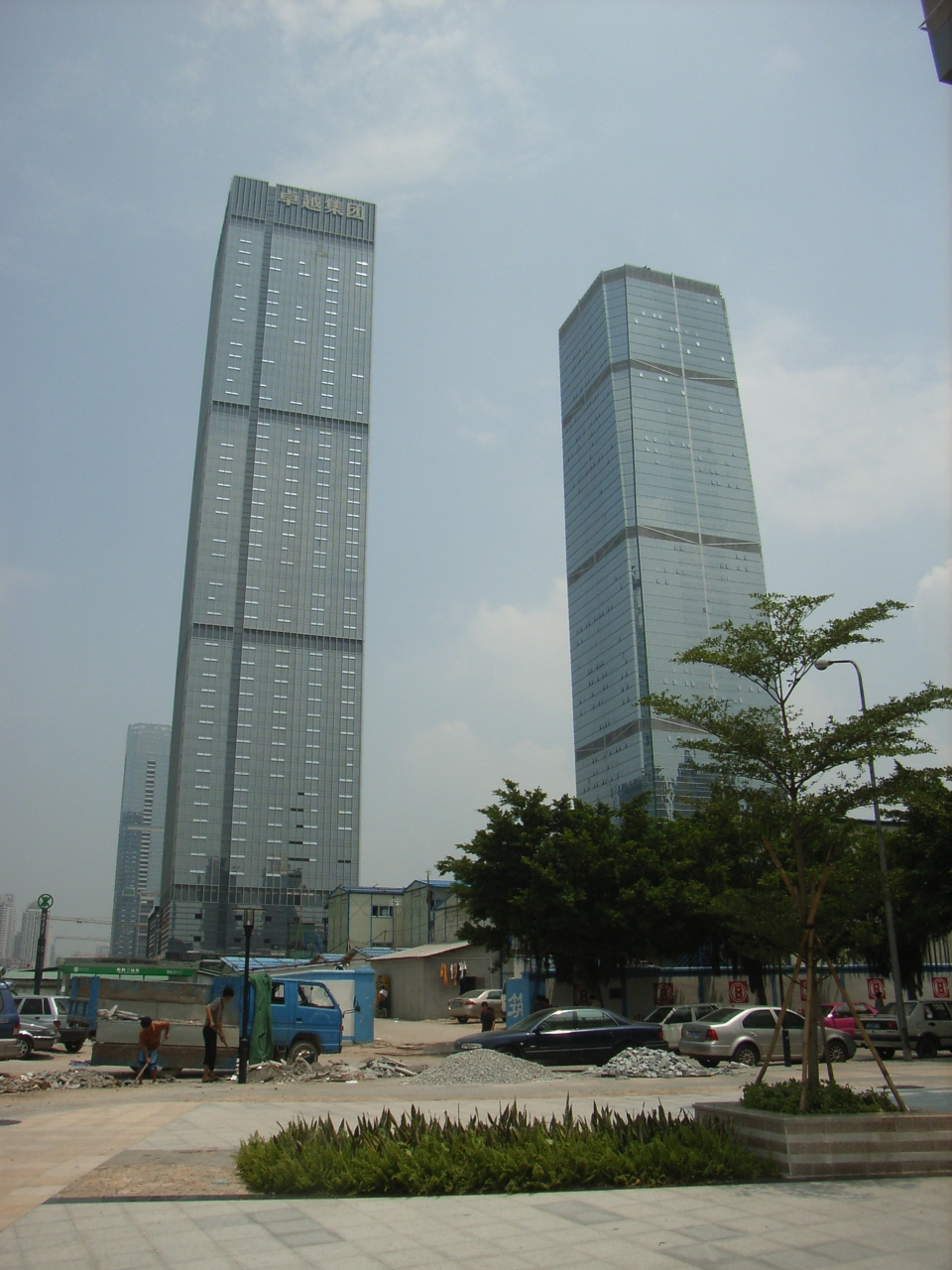 深圳地鐵 沿線各站風景Shenzhen, China (Author is SAMZ).